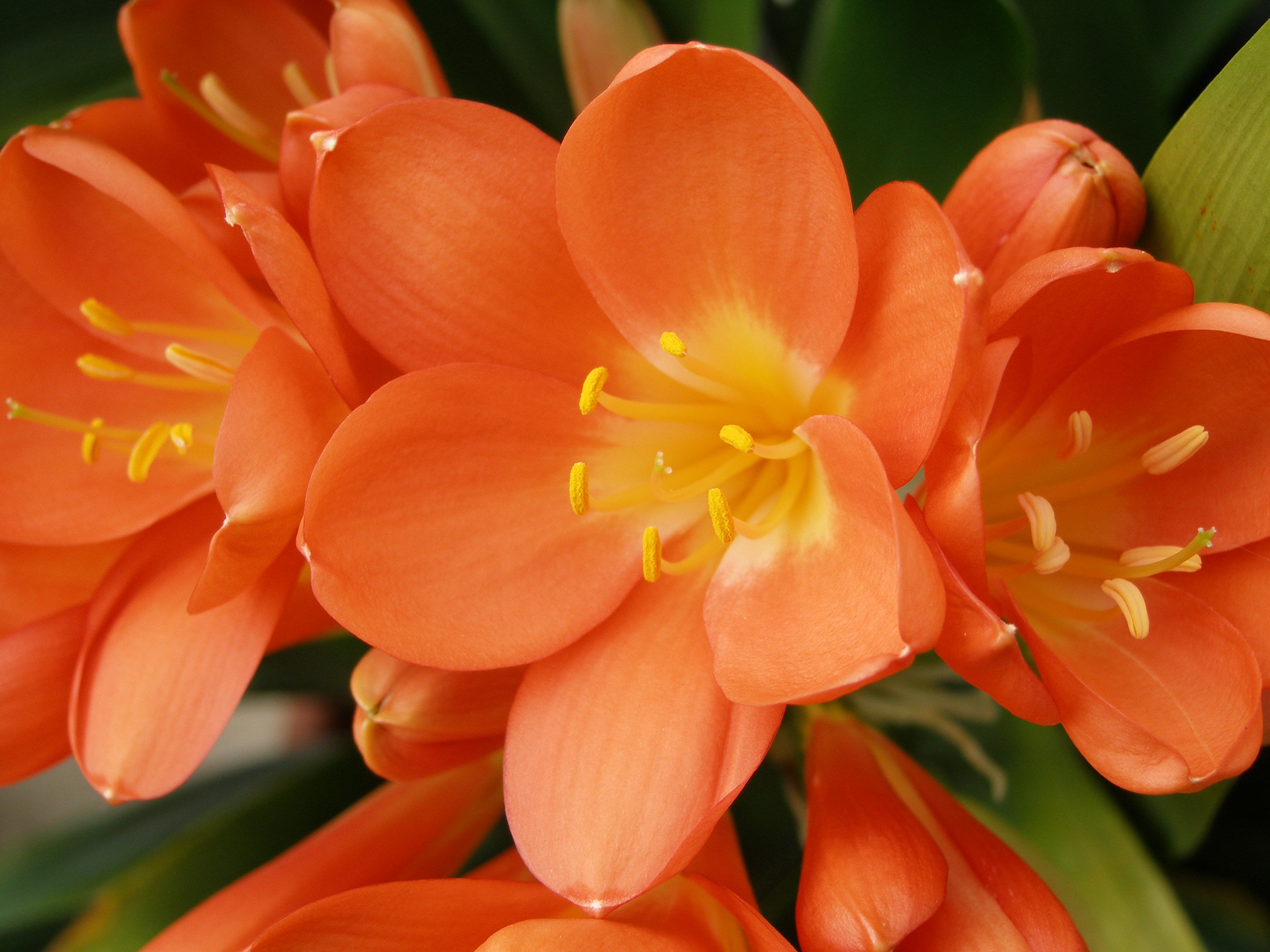 Specimen in cultivation at the Royal Botanic Gardens, Kew, United Kingdom.